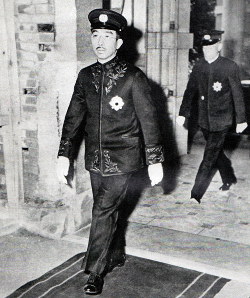 Emperor Showa wearing "Tennno gofuku".